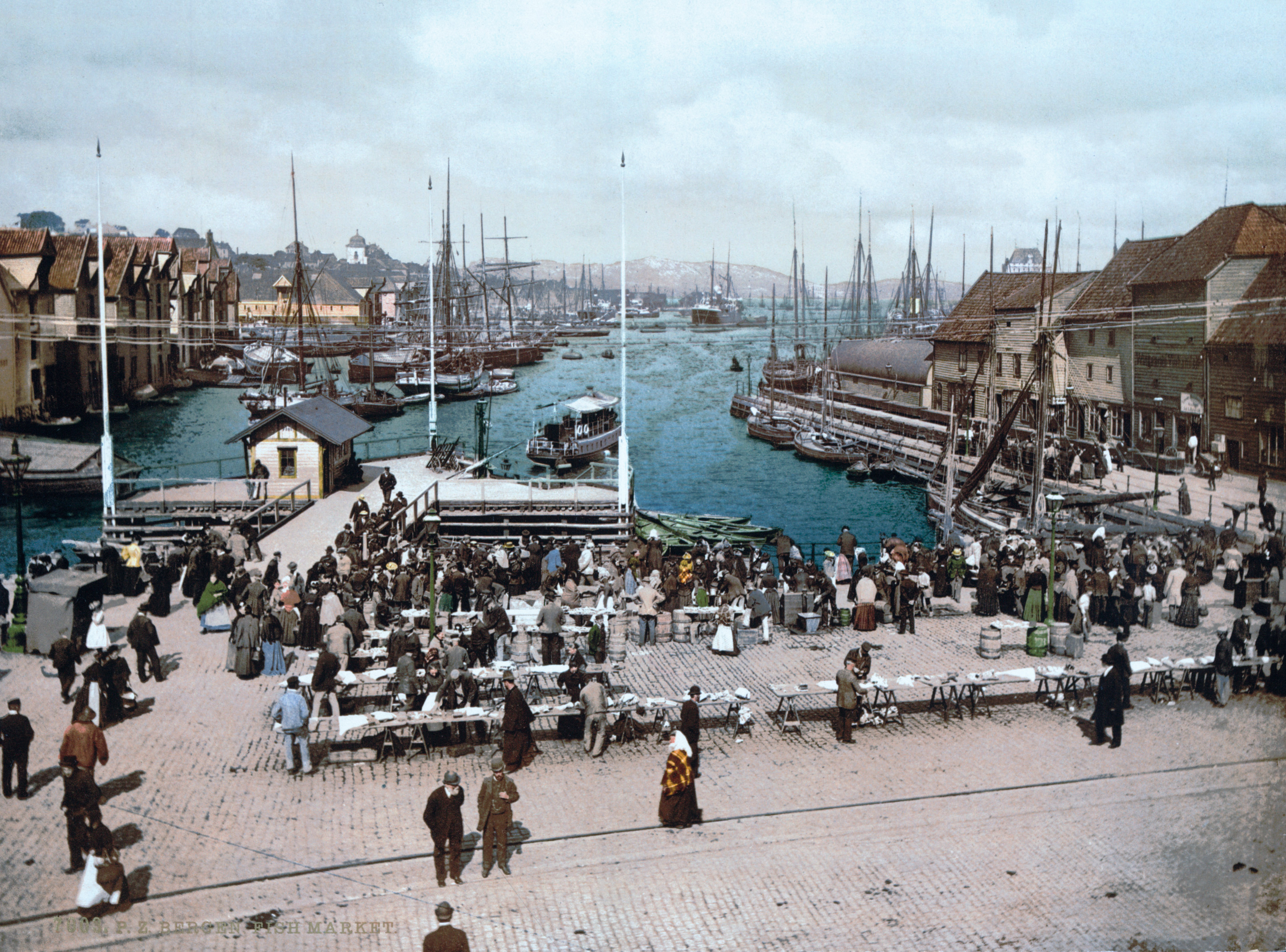 Fish market, Bergen, Norway Print no. 7003